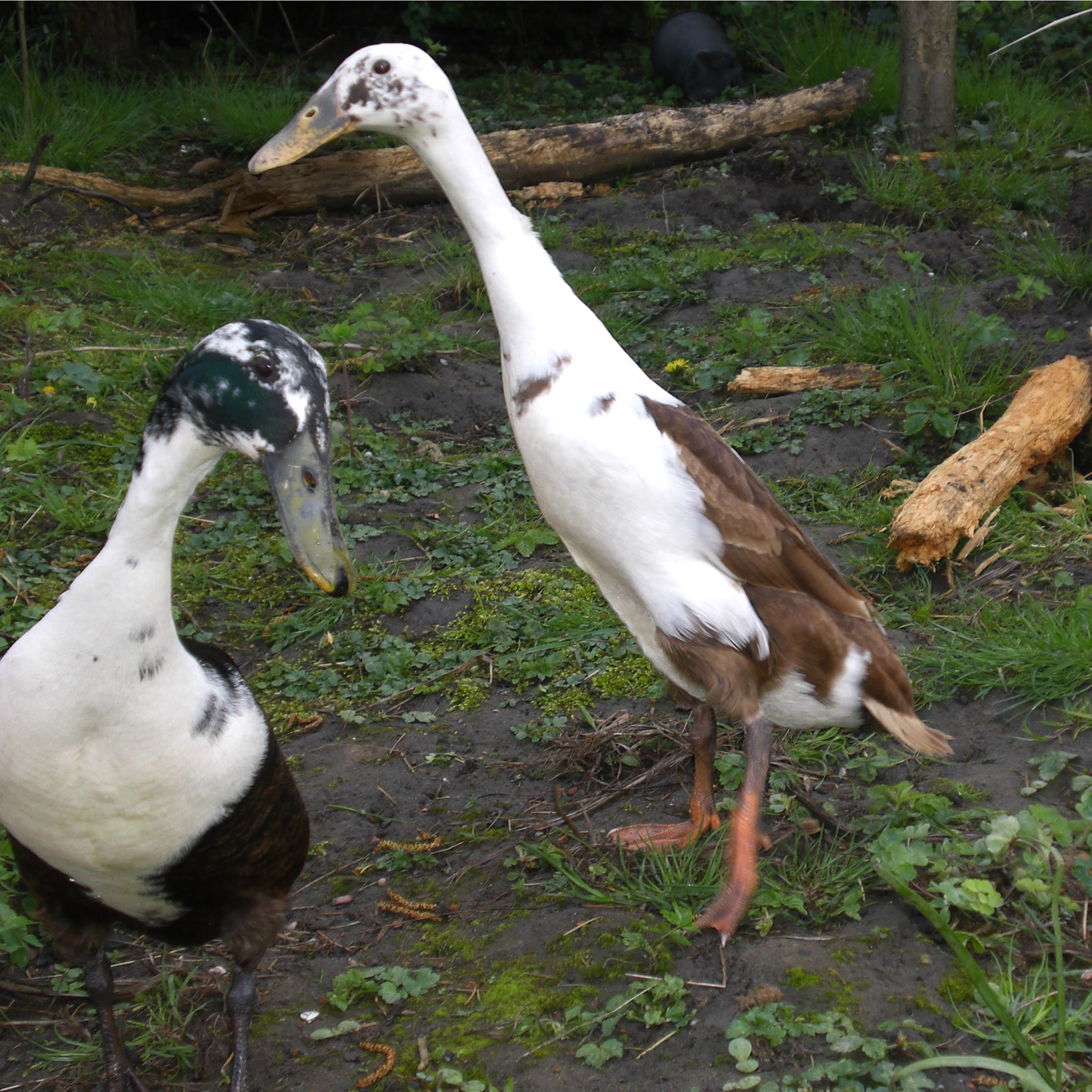 Two running ducks watching the fotographer, Saarland, Germany